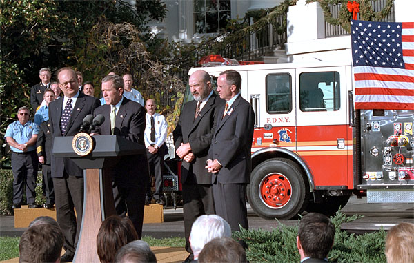 Accompanied by firemen and other distinguished guests, President George W. Bush speaks during a ceremony held to honor the gift of a new firetruck for the city of New York on the South Lawn Dec. 19. Donated by the state of Louisiana, the "Spirit of Louisiana," will replace one of the 35 firetrucks that were destroyed in the Sept. 11 attacks. Standing with the President is Ronald Goldman (left), Louisiana Governor Mike Foster (center), and Louisiana Representative Hunt Downer. White House photo by Tina Hager.